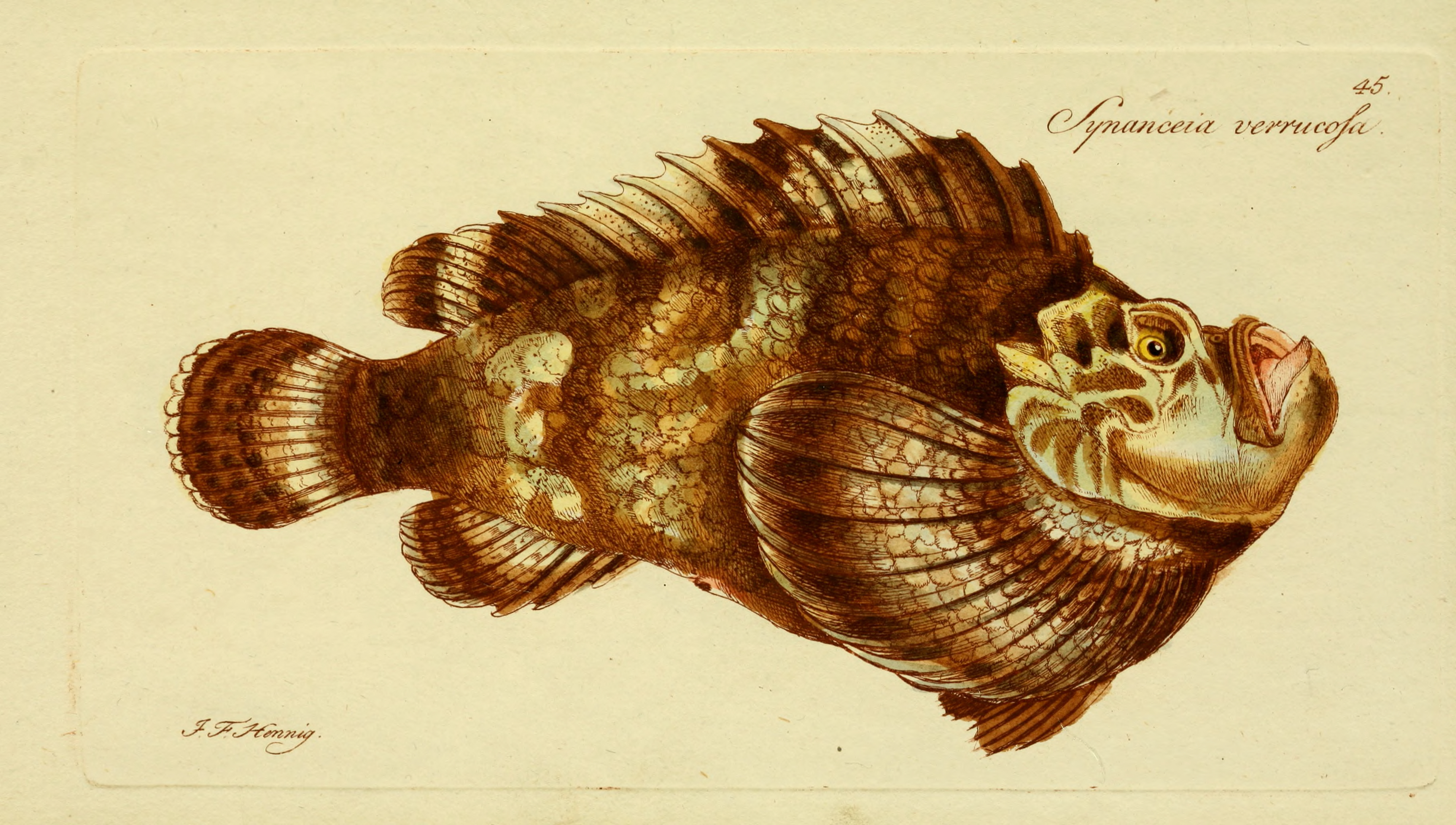 An illustration of the fish species Synanceia verrucosa, a type of stonefish, included with its first description.